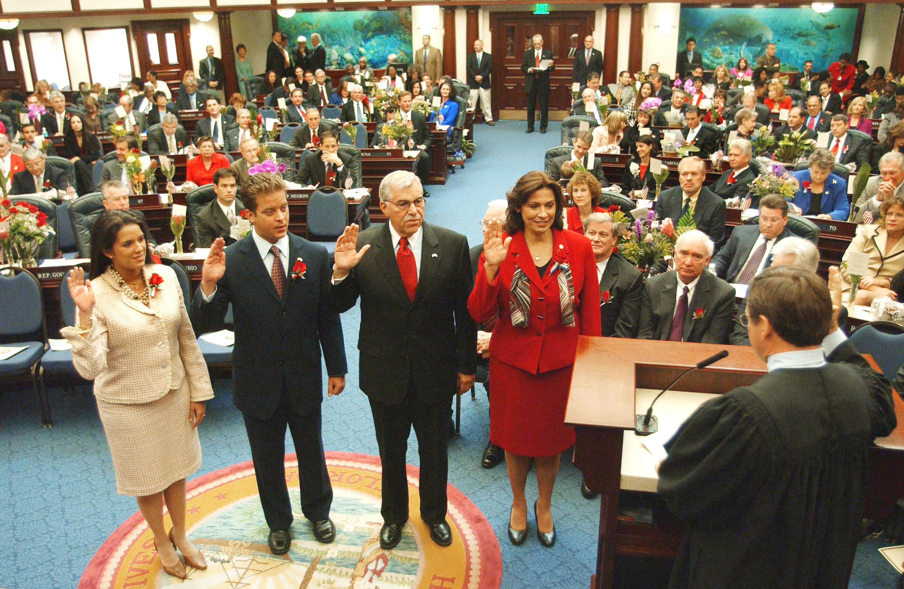 Accompanying note: "Newly-elected Representatives are sworn into office during ceremonies on the House floor November 16, 2004. From the left show Representatives: Anitere Flores, R-Miami; Carlos Lopez-Cantera, R-Miami; Franklin Sands, D-Weston; and Susan Goldstein, R-Sunrise." Also identified in the background: seated front row, at the left, by the aisle is future House Speaker Marco Rubio; seated front row, just to the right of Representative Goldstein are former speakers John Thrasher and James Harold Thompson.